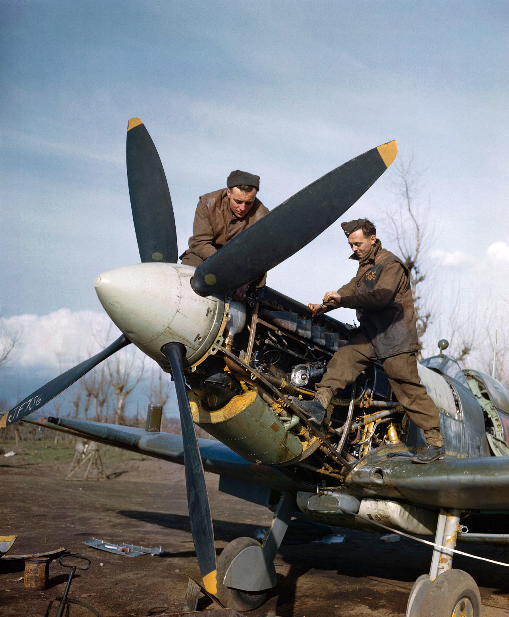 Supermarine Spitfires of the Royal Air Force in Italy, January 1944 Aircraftman Jim Birkett and Leading Aircraftman Wally Passmore working on the portside Merlin engine of a Supermarine Spitfire of No 241 Squadron, Royal Air Force on a chilly day in Southern Italy.